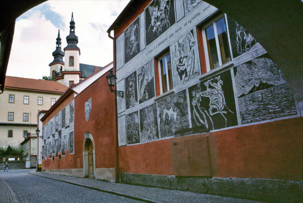 Litomyšl, house with graffiti